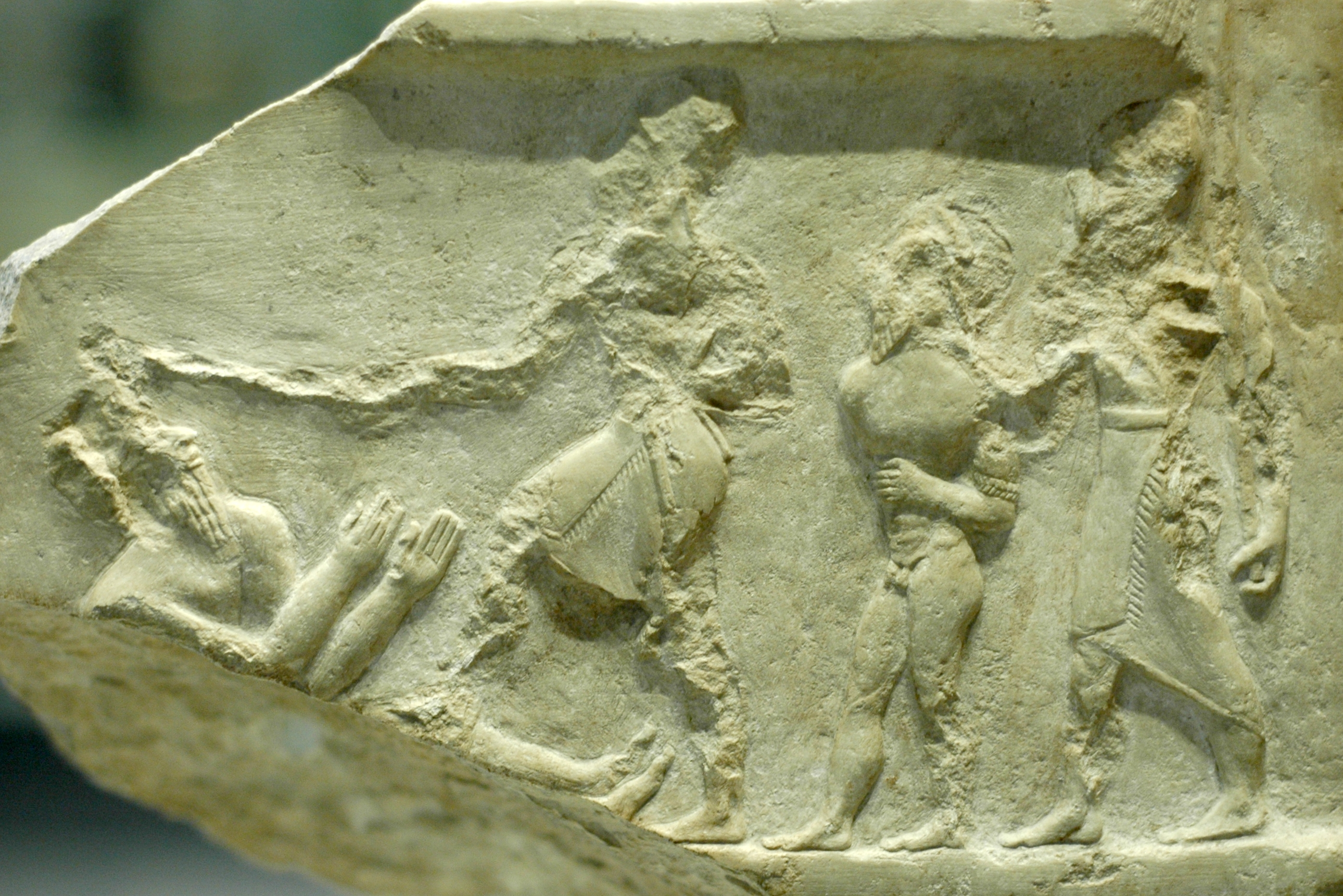 Face B of an Akkadian victory stele. Limestone, ca. 2300-2250 BC. Found in Telloh (ancient Girsu), De Sarzec excavations, 1894.